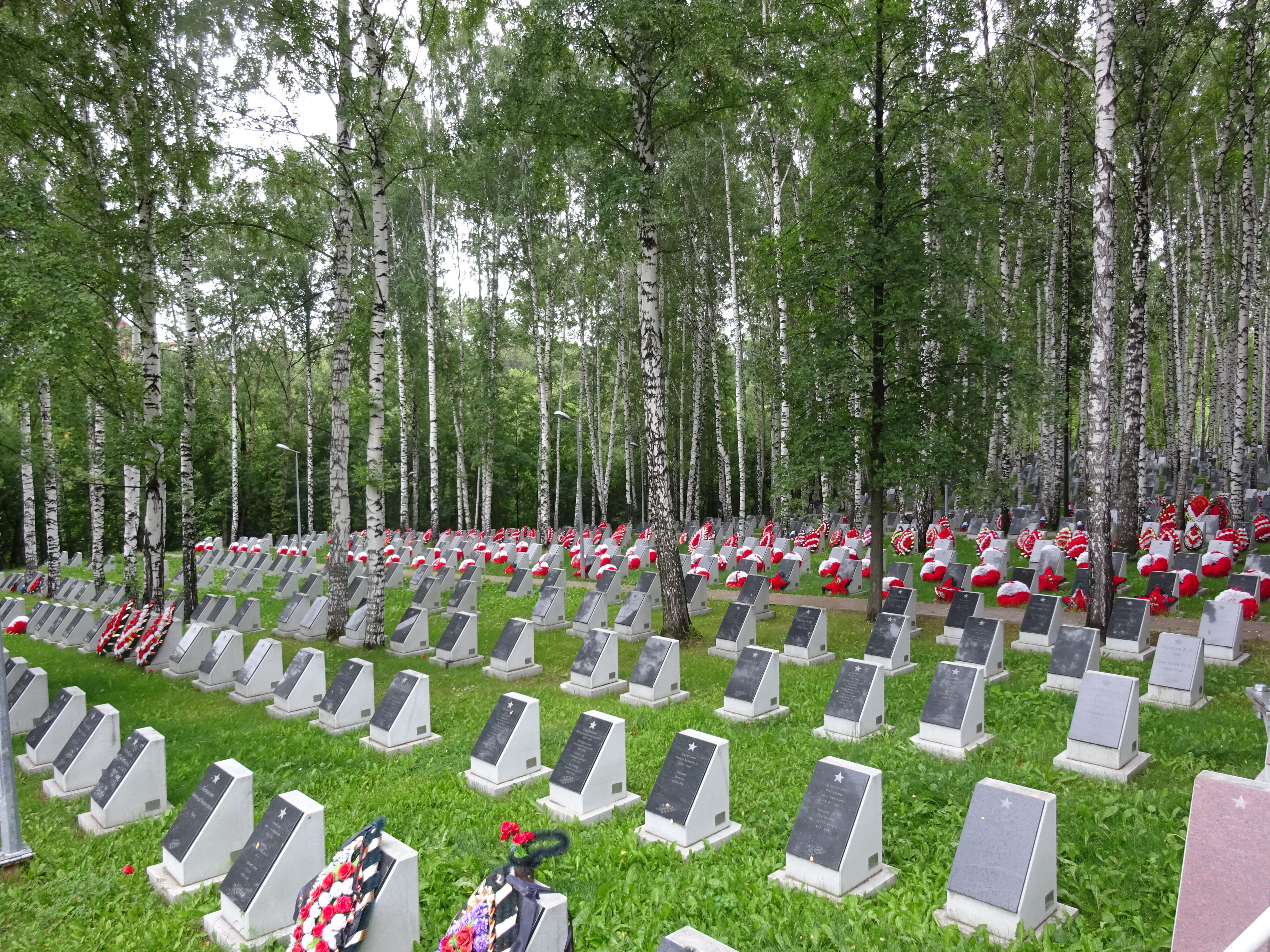 Military cemetery (part of the Yegoshikha cemetery in Perm)